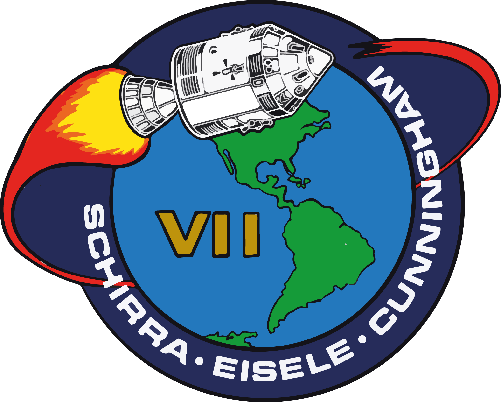 The official emblem of Apollo 7, the first manned Apollo space mission. The crew will consist of astronauts Walter M. Schirra Jr., Donn F. Eisele, and Walter Cunningham.